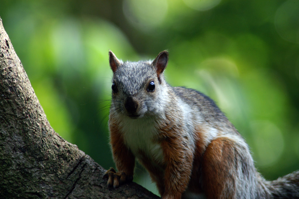 Costa-Rica Variegated Squirrel